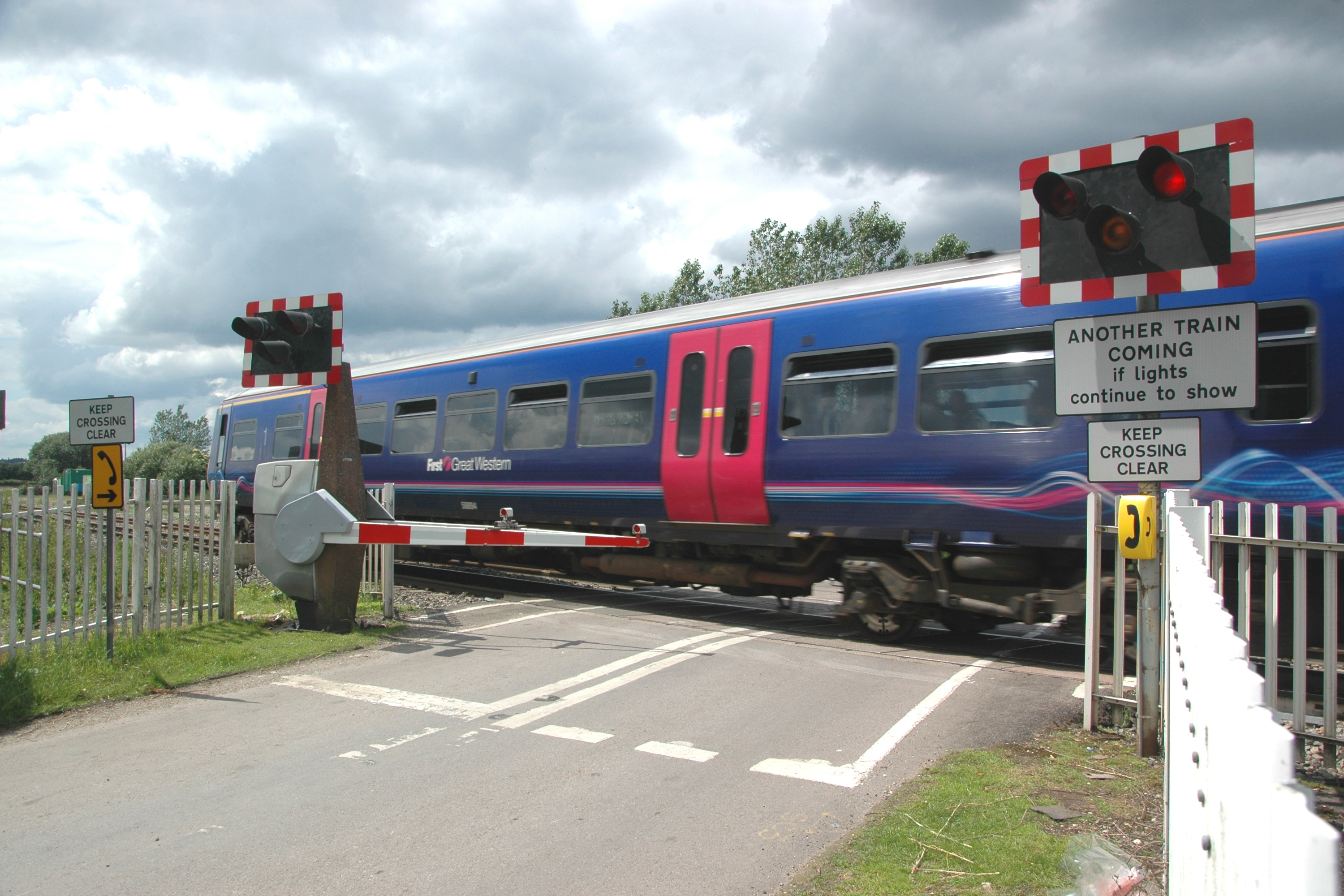 Railway level crossing, Ufton Nervet, West Berkshire: First Great Western Class 165 train heading for Newbury. On 6 November 2004, a chef named Bryan Drysdale committed suicide by parking his car on this level crossing, which only has half barriers, rather than full barriers used on many other level crossings. An InterCity 125 operated by First Great Western running from London Paddington to Plymouth collided with the car. 7 people, including Drysdale, were killed and 71 were injured. There was another suicide at this level crossing, in 2009, when a man jumped in front of a train, and also 4 subsequent incidents on the level crossing, including a near miss. These incidents have led to considerable debate about the safety of half-barrier level crossings on the UK rail network.